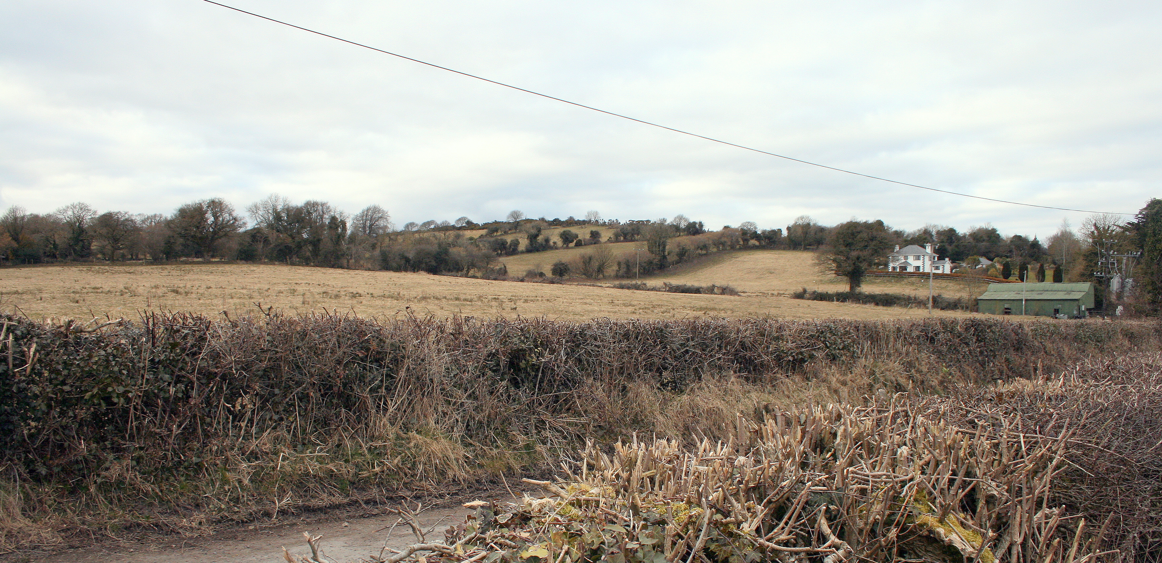 Pastureland near Mullingar